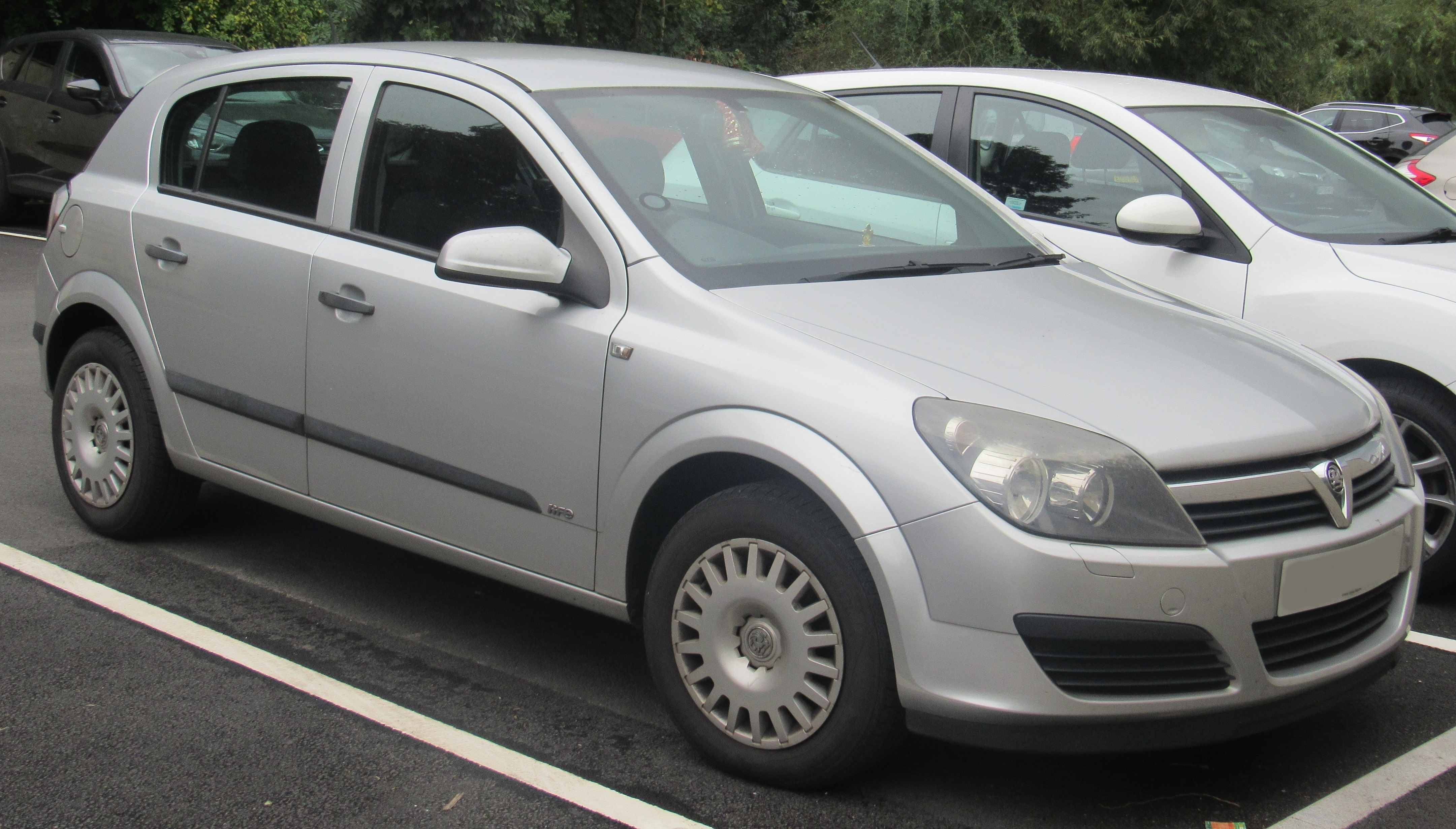 2006 Vauxhall Astra Life CDTi 90 1.2 Front Taken in Leamington Spa